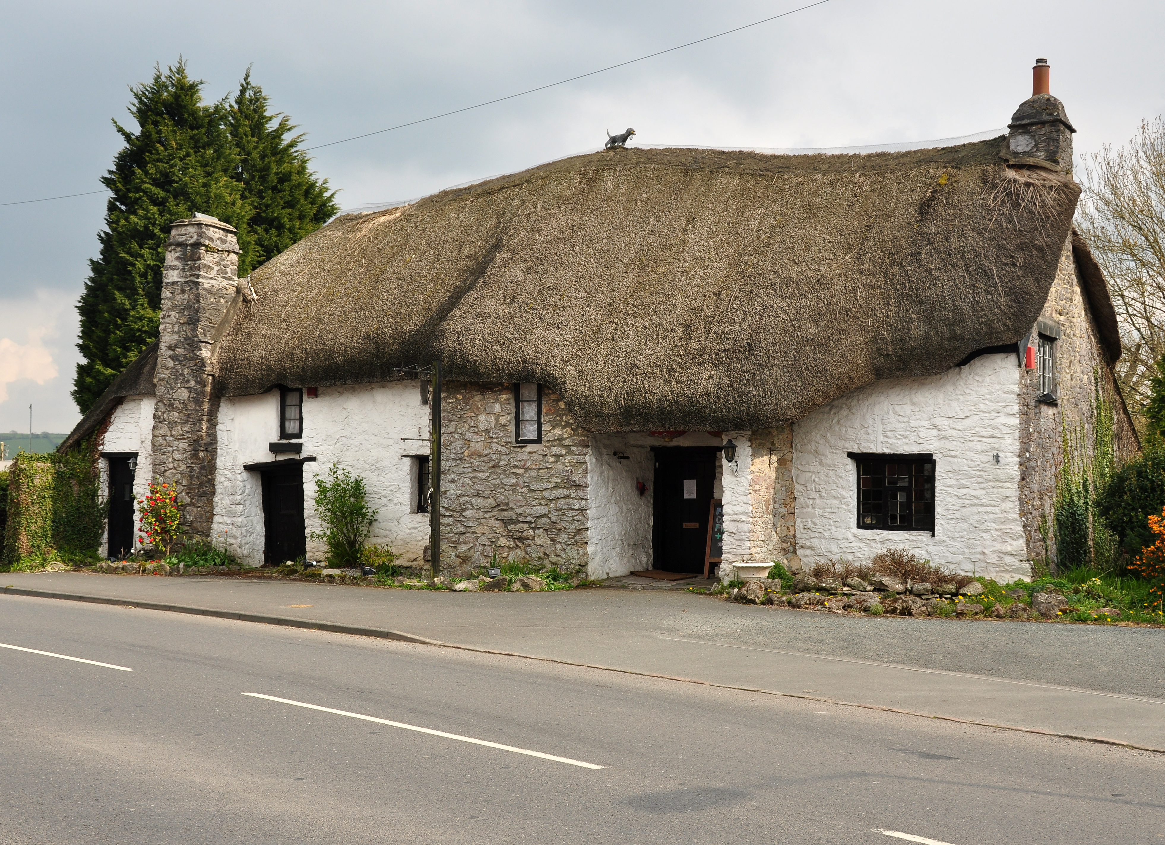 Old Mother Hubbards Cottage in Yealmpton, Devon.